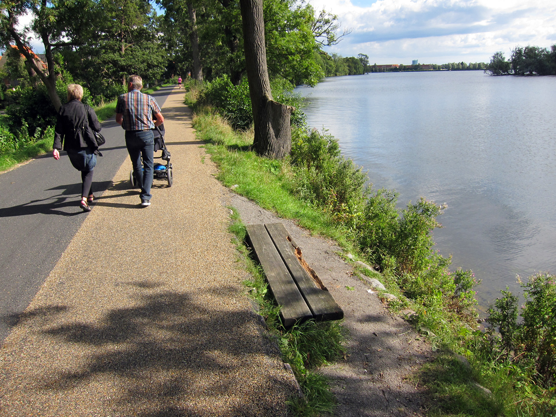 Damhussøen